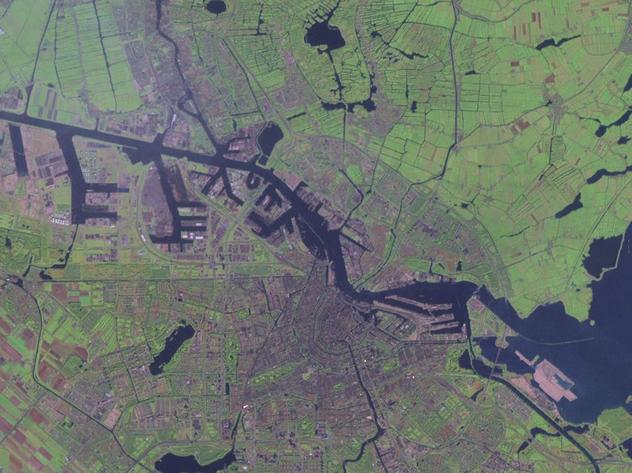 NASA World Wind screenshot.